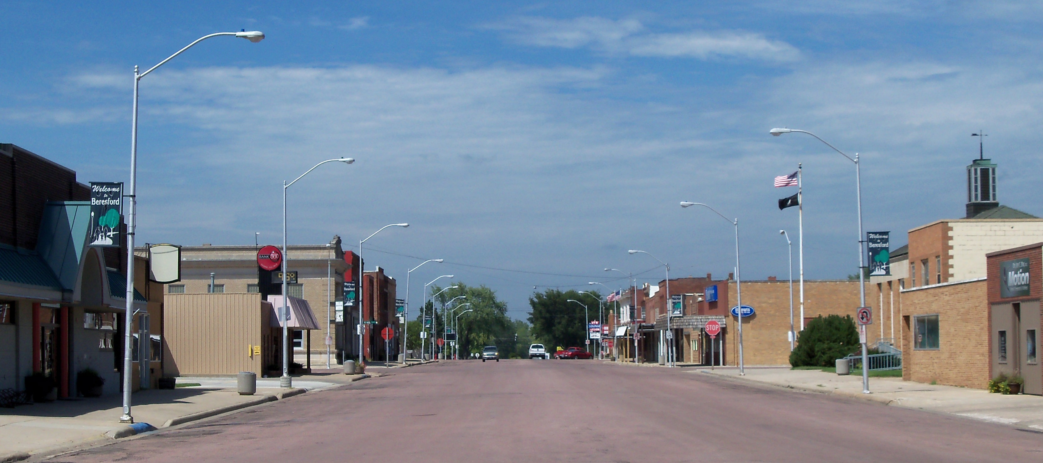 Downtown Beresford, South Dakota, USA.